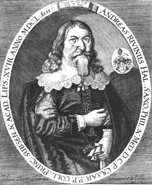 Andreas Rivinus (1601-1656) Poet, Physician, Linguist and Philosopher from Germany